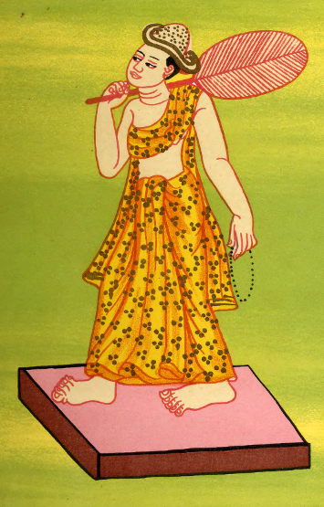 Shindaw nat (spirit), th in the official pantheon of Burmese nats